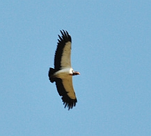 King Vulture (Sarcoramphus papa) soaring in Piaui, Brazil.